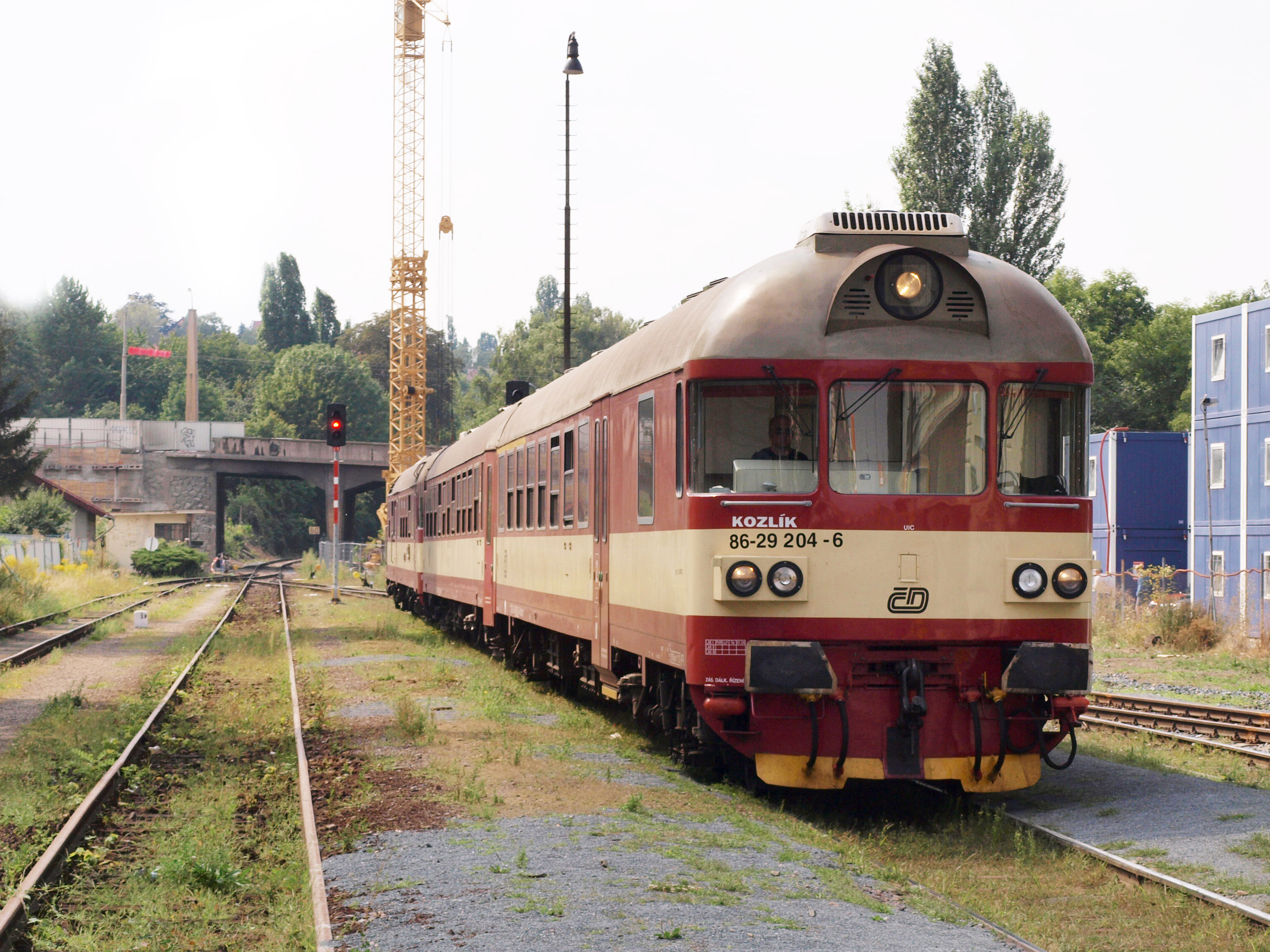 ČD Class 954 in train station Praha-Dejvice